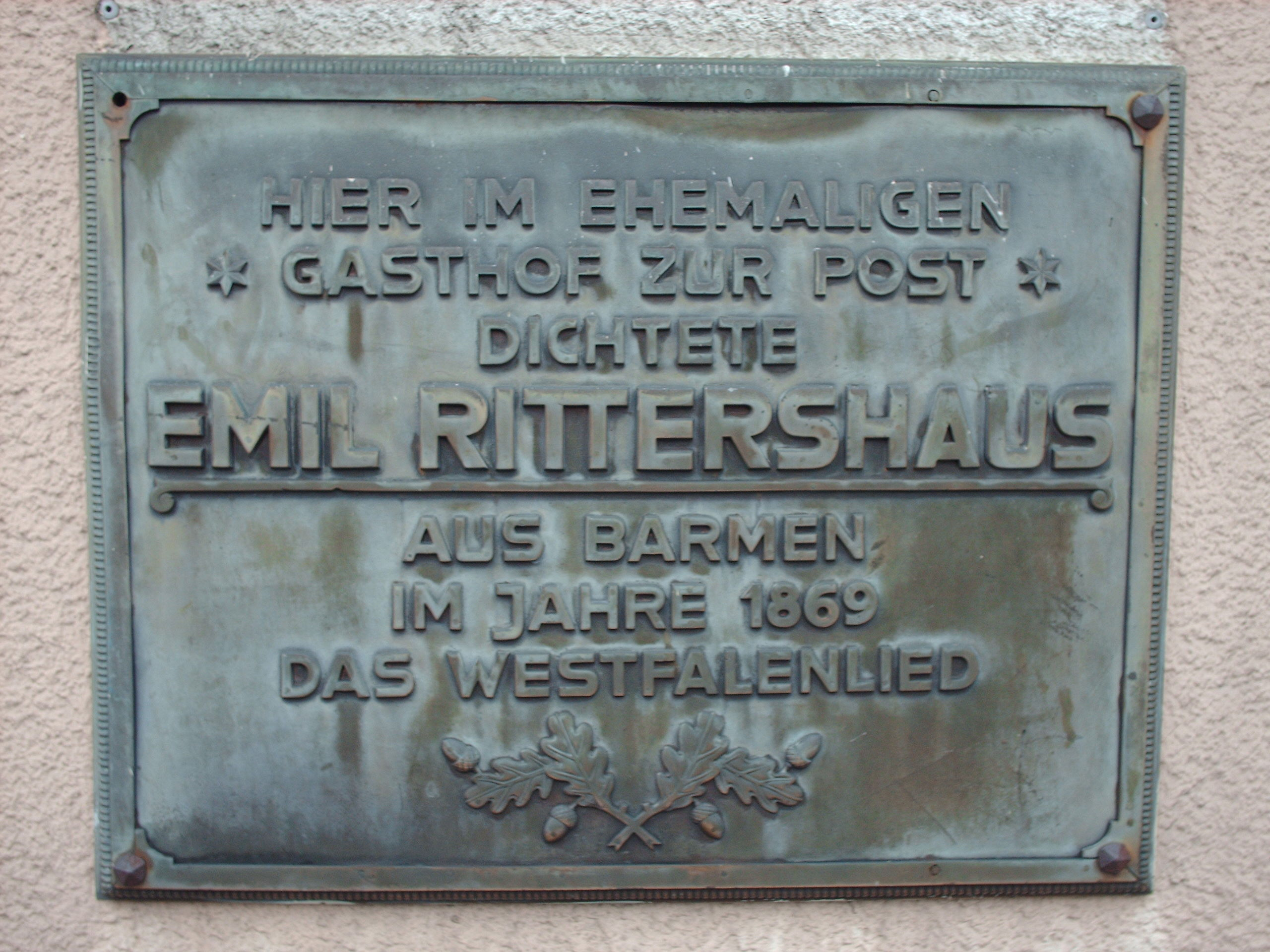 Plaque for Rittershaus' Westfalenlied, Iserlohn, Germany check usage